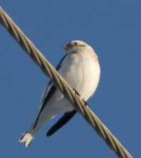 McKay's Bunting Plectrophenax hyperboreus on the telephone lines behind the Bering Land Bridge Visitor Center. Their return means that spring is only a couple months away.